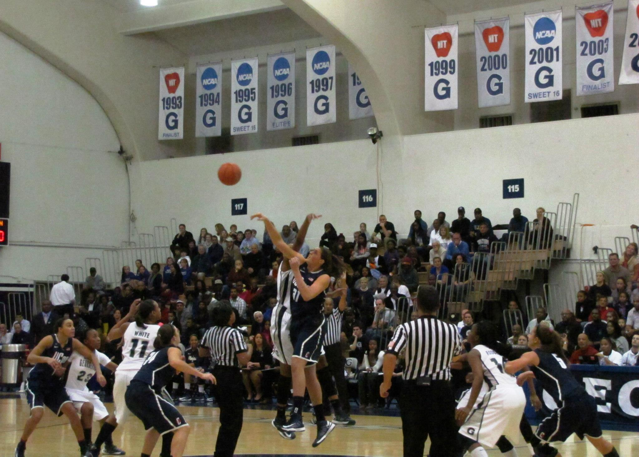 Tipoff of UConn versus Georgetown women's basketball game held in McDonough Gymnasium, 9 January 2013. Stefanie Dolson is in the center jump.